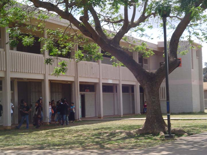 Photo of James Campbell High School.